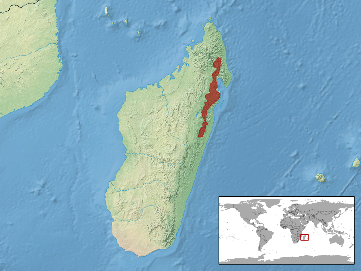 geographic distribution of Calumma cucullatum (Native: Madagascar)